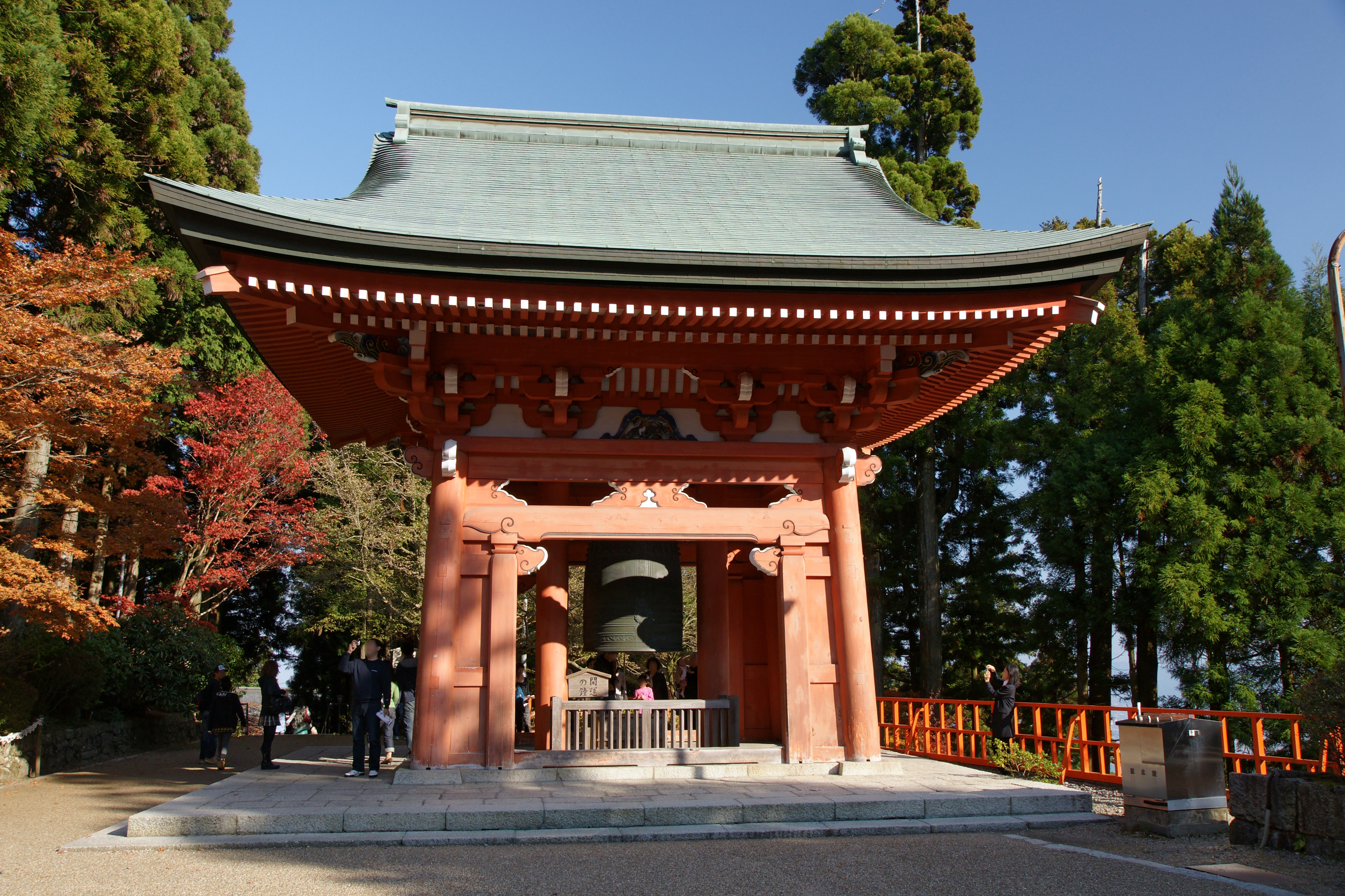 Shoro of Enryakuji Buddhist temple, Otsu, Shiga prefecture, Japan